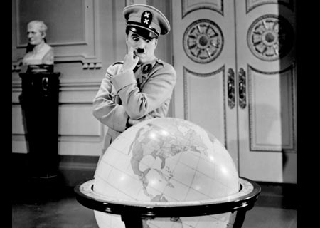 Charlie Chaplin from the film The Great Dictator (1940).